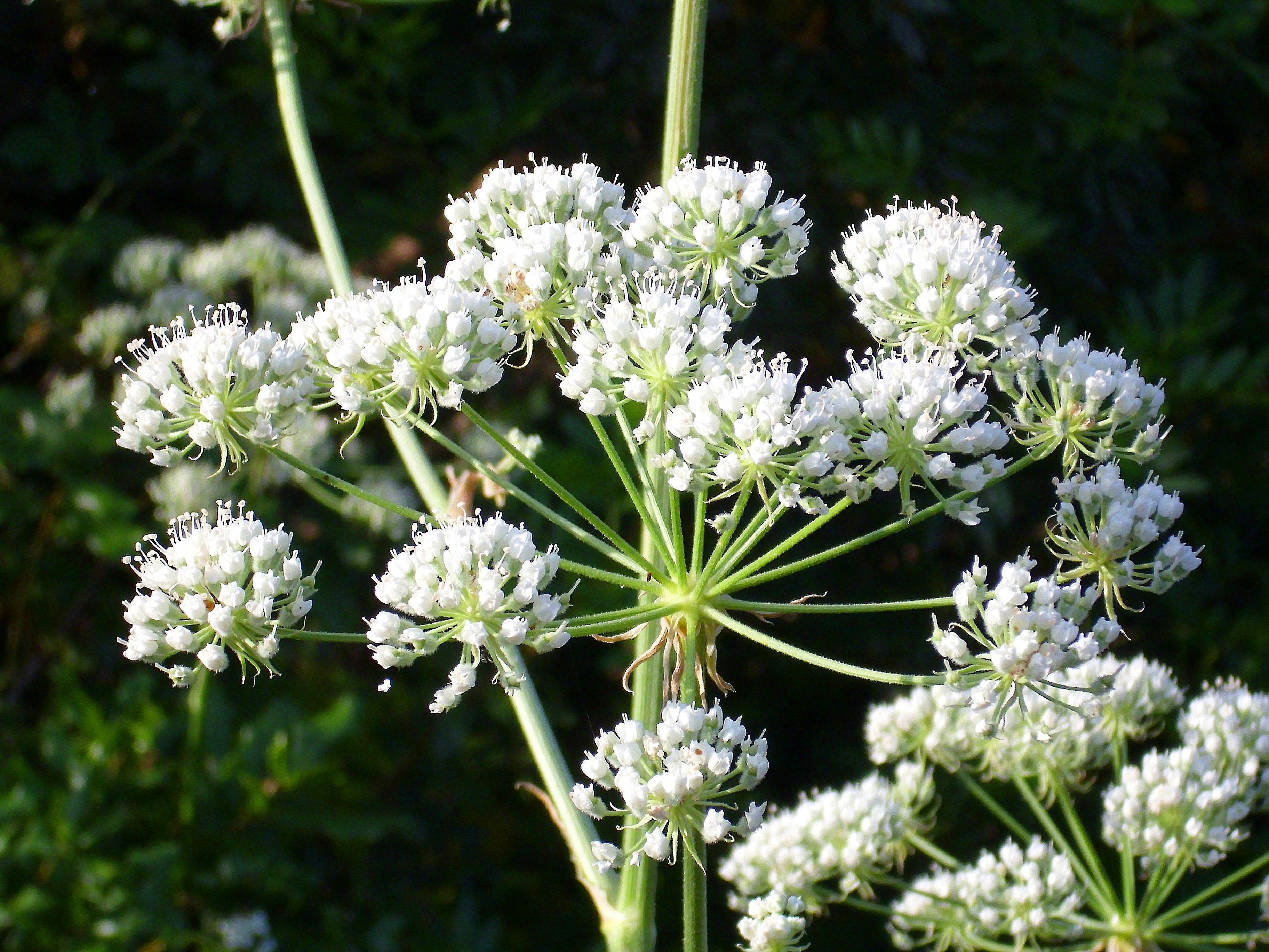 Magydaris panacifolia inflorescences closeup, Sierra Madrona, Spain